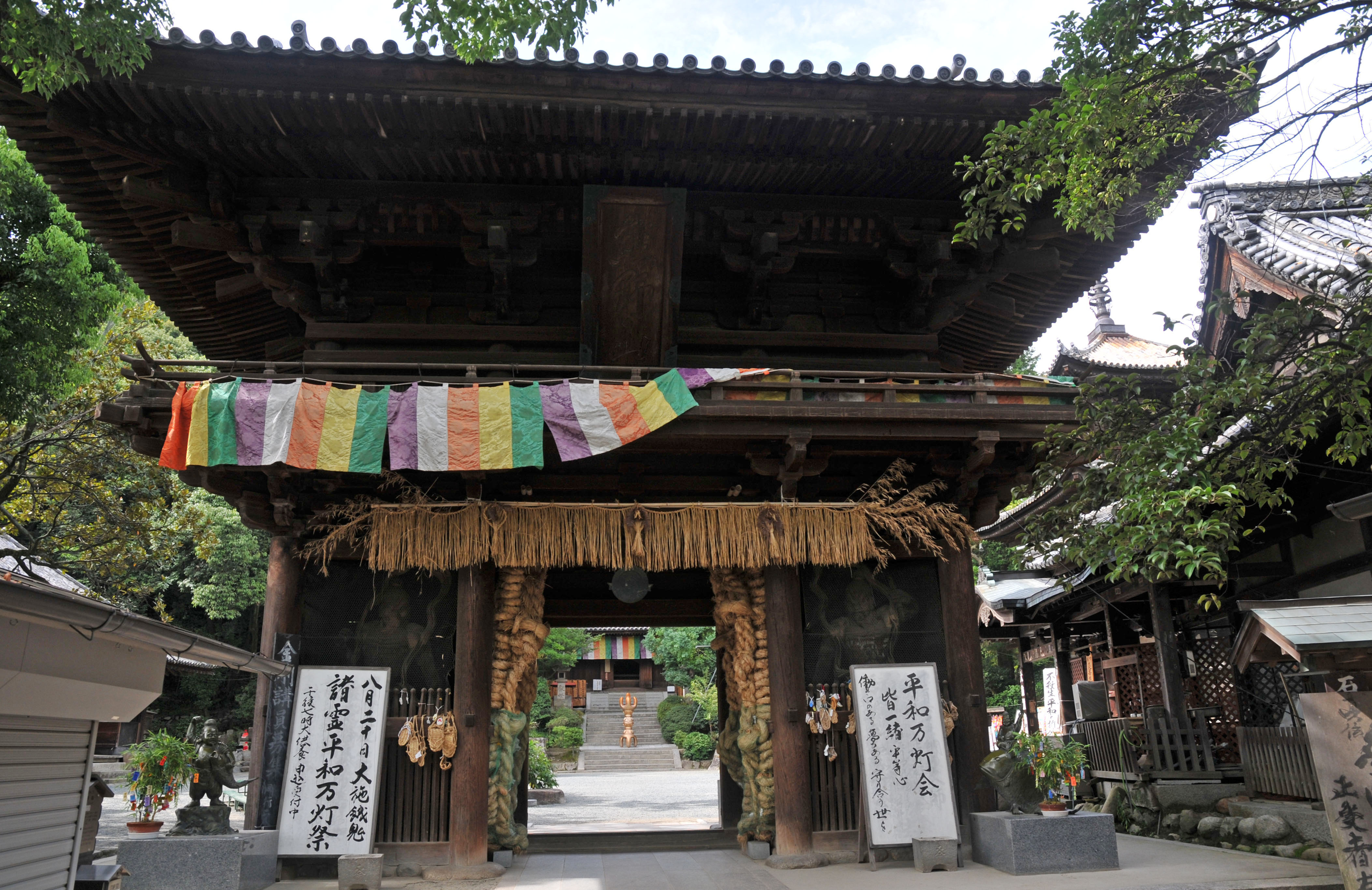 Temple gate(Japan's National Treasure), Ishite-ji